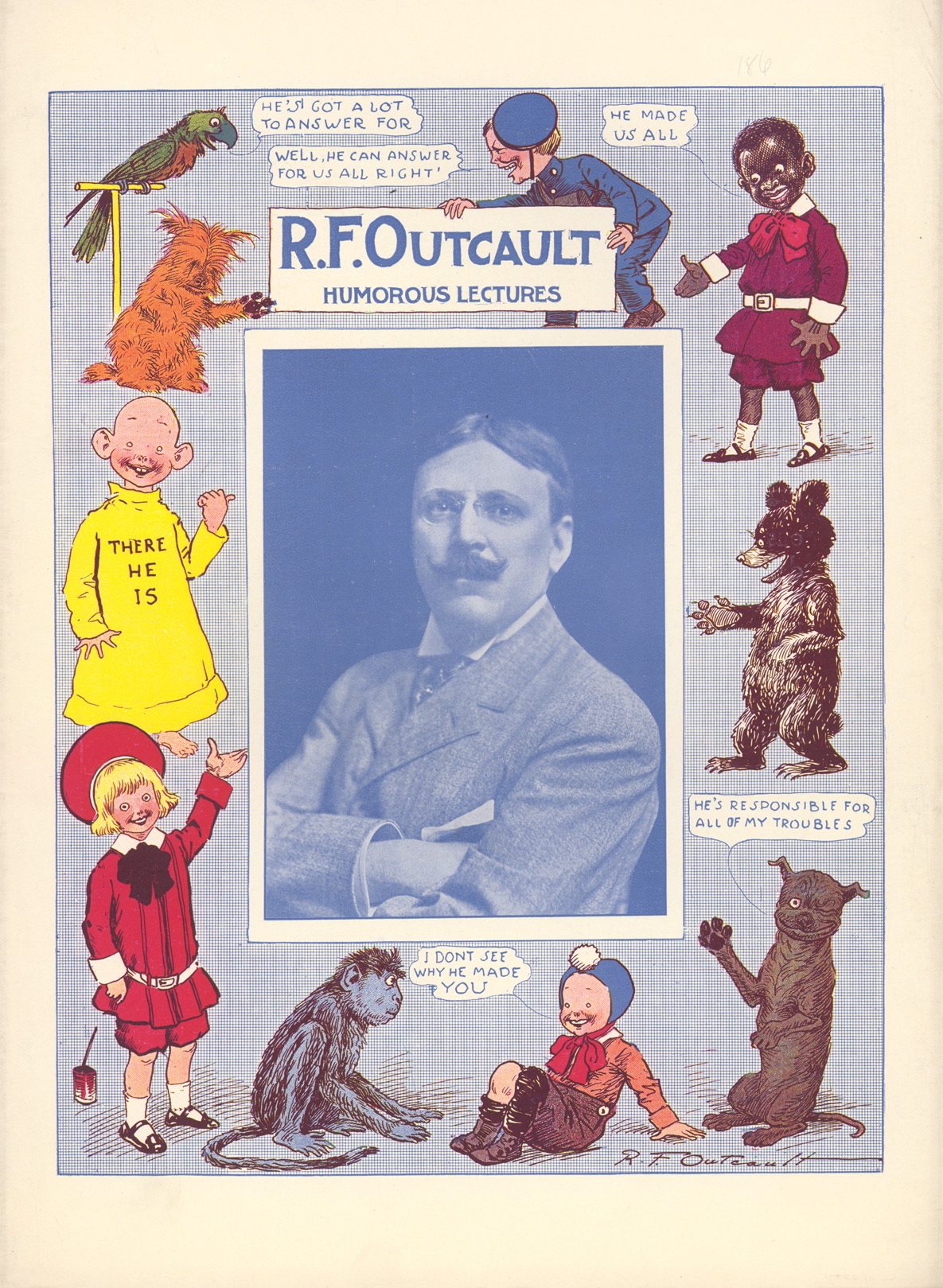 Cover page of a lecture brochure from the Redpath Lyceum Bureau for illustrator and cartoonist R. F. Outcault's "Funny Pictures" lecture. Outcault was represented by the lecture bureau; they would arrange speaking engagements for him on the subject. Outcault himself illustrated his brochure.